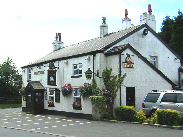 The Rigbye Arms at High Moor, Wrightington. This place has an excellent local reputation for bar food, but I must have called on the wrong day!